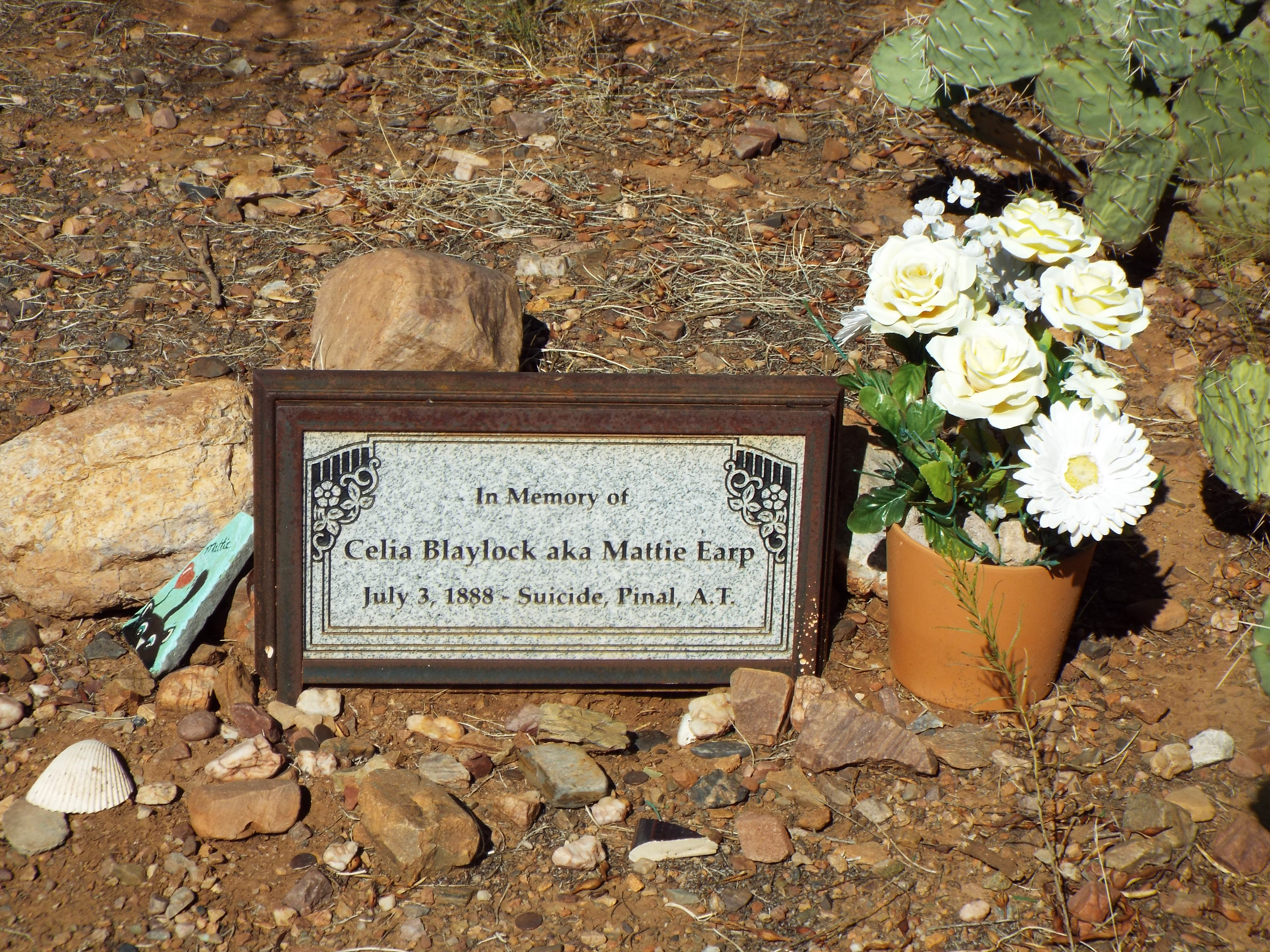 The grave of Mattie Earp, who was once Wyatt Earp's common-law wife, in the Pinal Cemetery in Superior, AZ